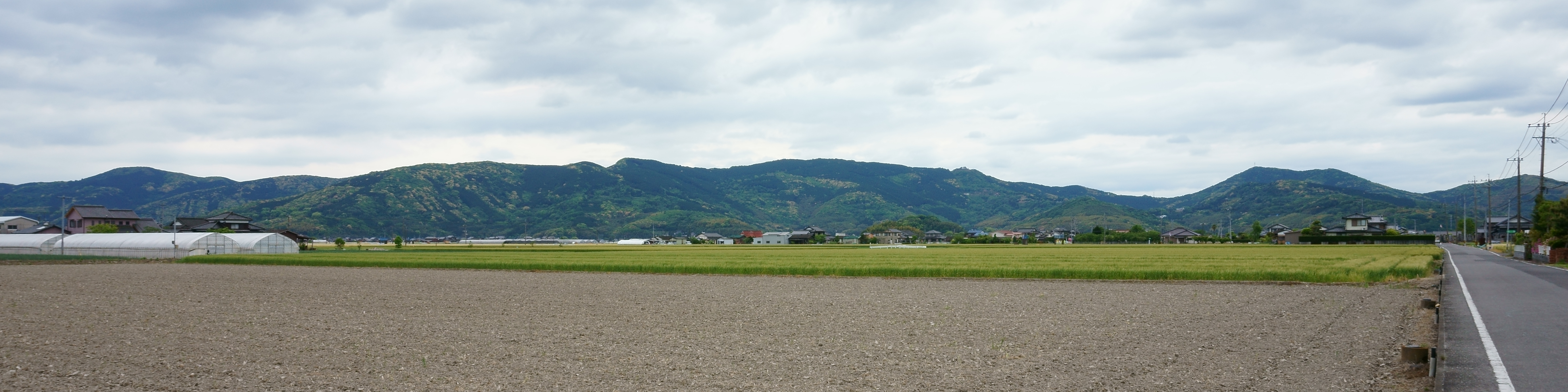 Mount Kishima from Fukuda, Shiroishi town, Saga prefecture.